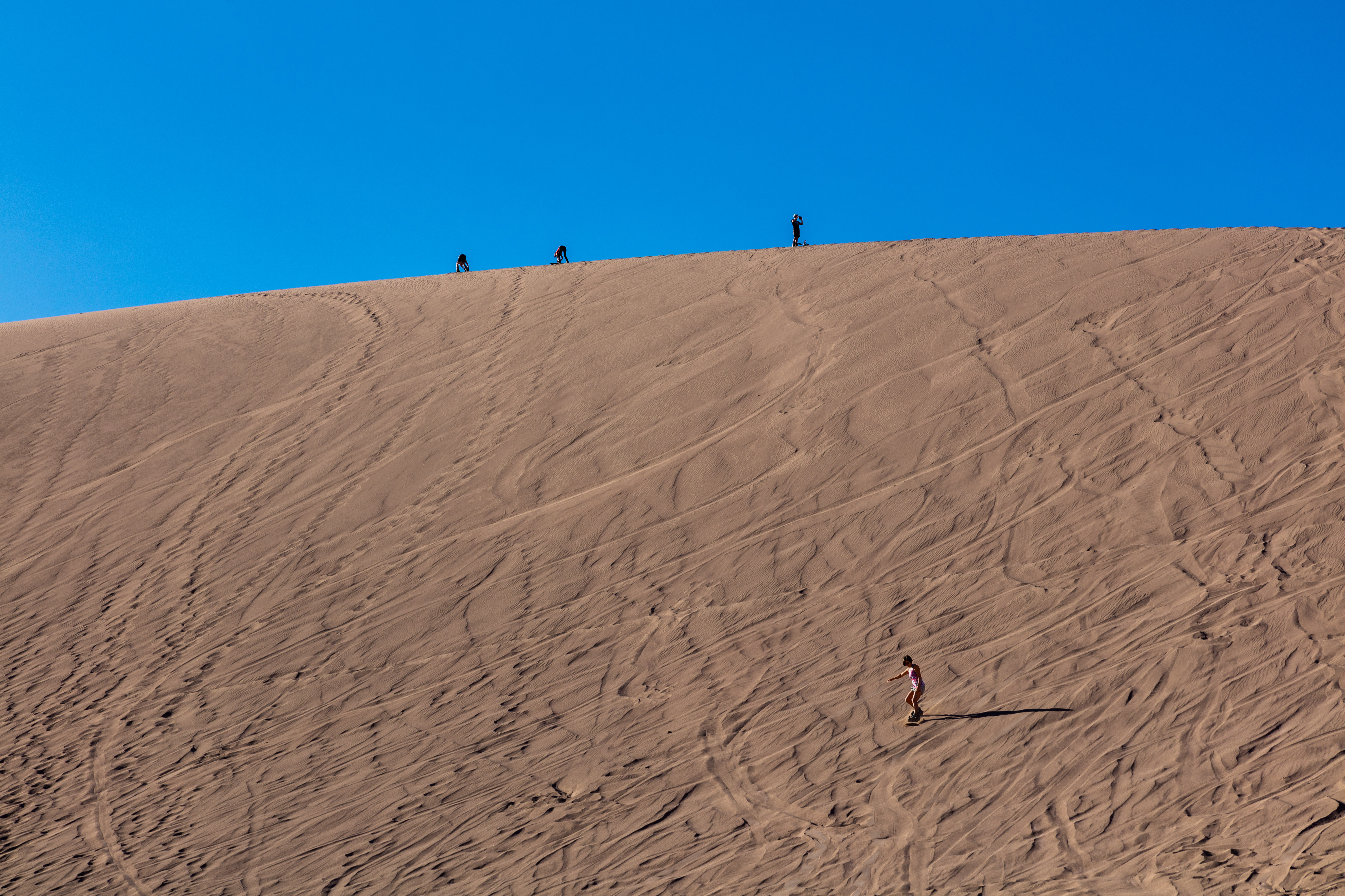 Sandboarding in Death Valley, San Pedro de Atacama, Chile